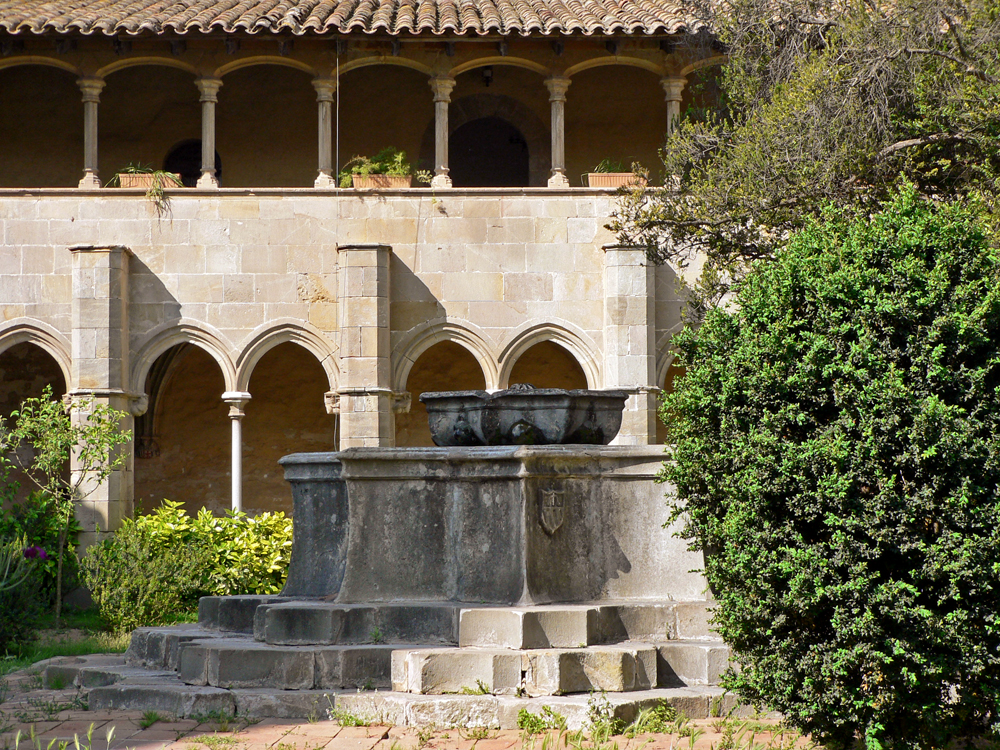 Cloister of St. Jeroni de la Murtra (Badalona, Catalonia, Kingdom of Spain)